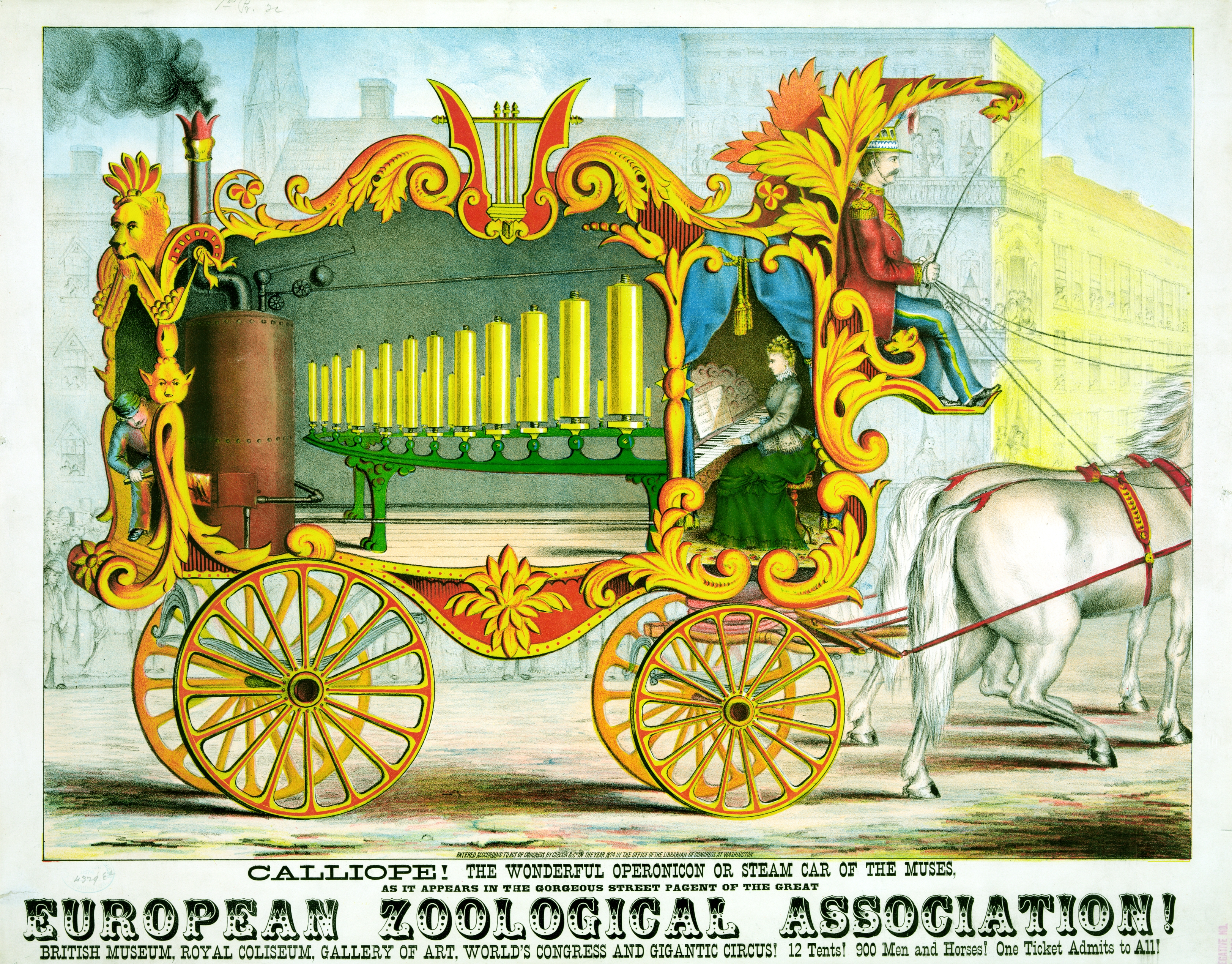 Chromolithograph circus poster showing a calliope or steam organ. "Calliope! The Wonderful Operonicon or Steam Car of the Muses, as it appears in the gorgeous street pageant of the Great European Zoological Association! British Museum, Royal Coliseum, Gallery of Art, World's Congress and Gigantic Circus! 12 Tents! 900 Men and Horses! One Ticket Admits to All!"